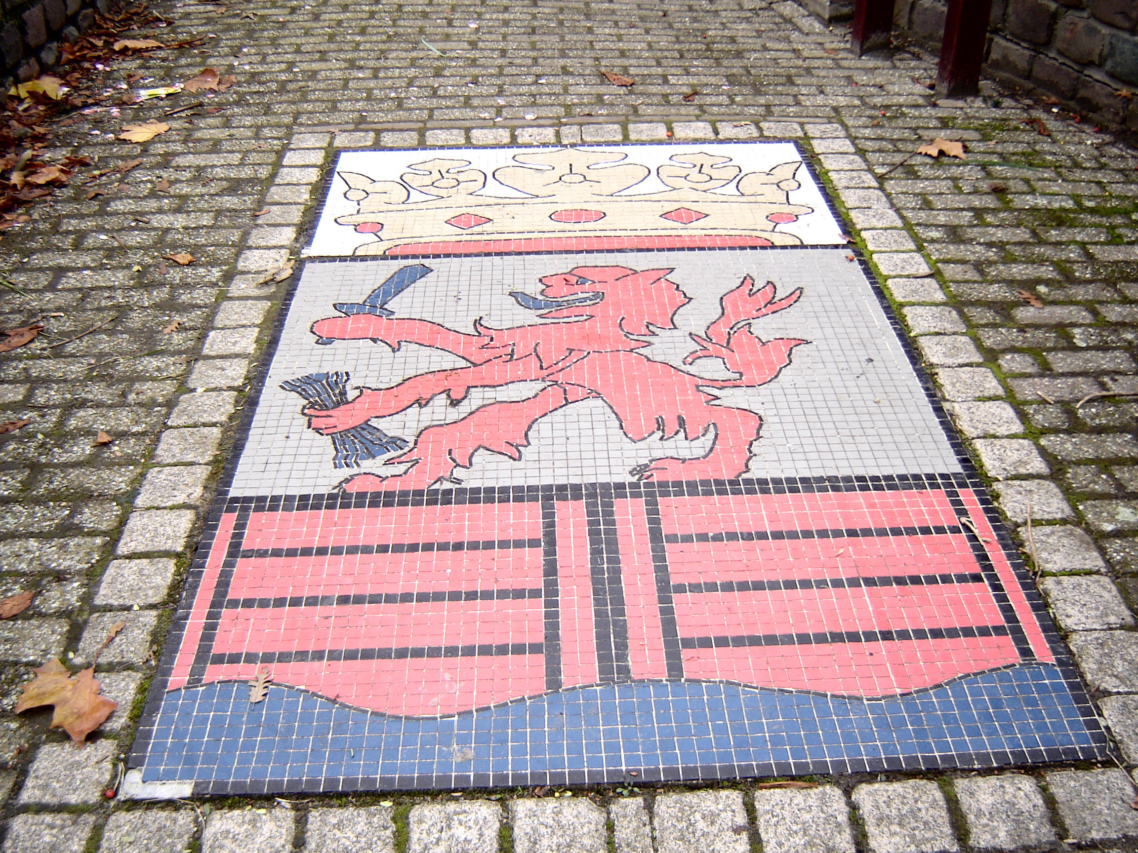 Mosaic with the coat of arms of Sas van Gent, at the entrace of the Bolwerk Generaliteit bastion. Sas van Gent, Terneuzen, Zeeland, the Netherlands